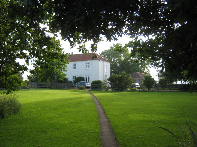 Hall Farm Archdeacon Newton. In this hamlet just west of Darlington.